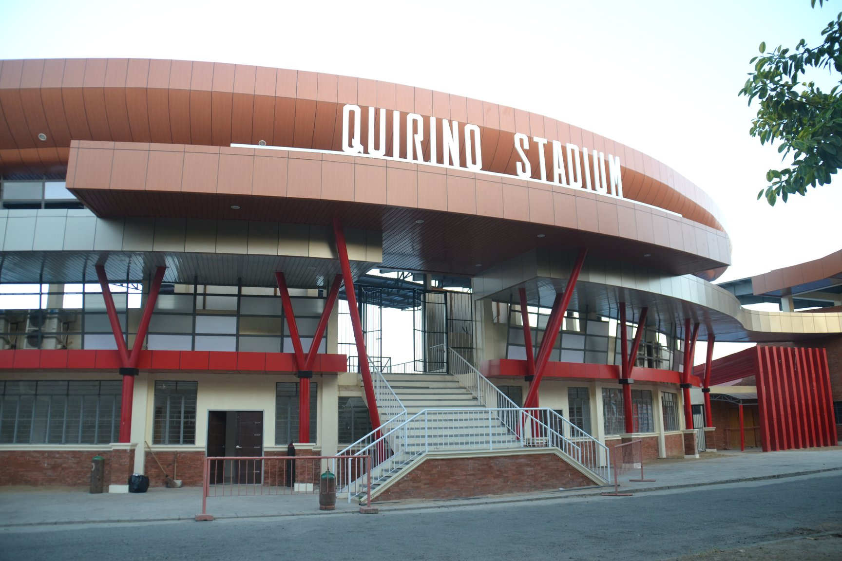 The Facade of the main grandstand of the President Elpidio Quirino Stadium in Bantay town where the opening of the Palarong Pambansa will be held in April 15, 2018.